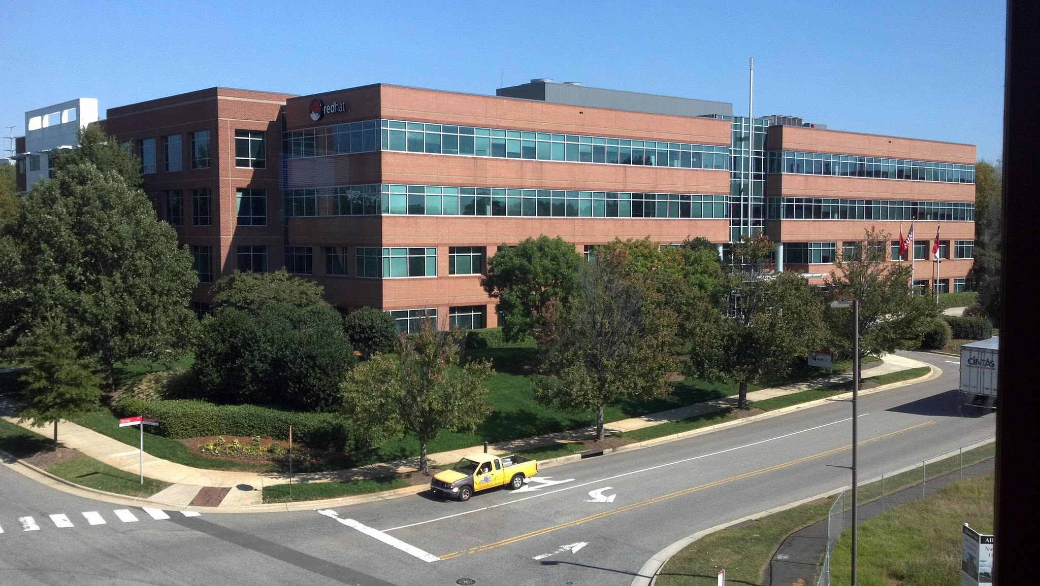 Red Hat Headquarters 2011